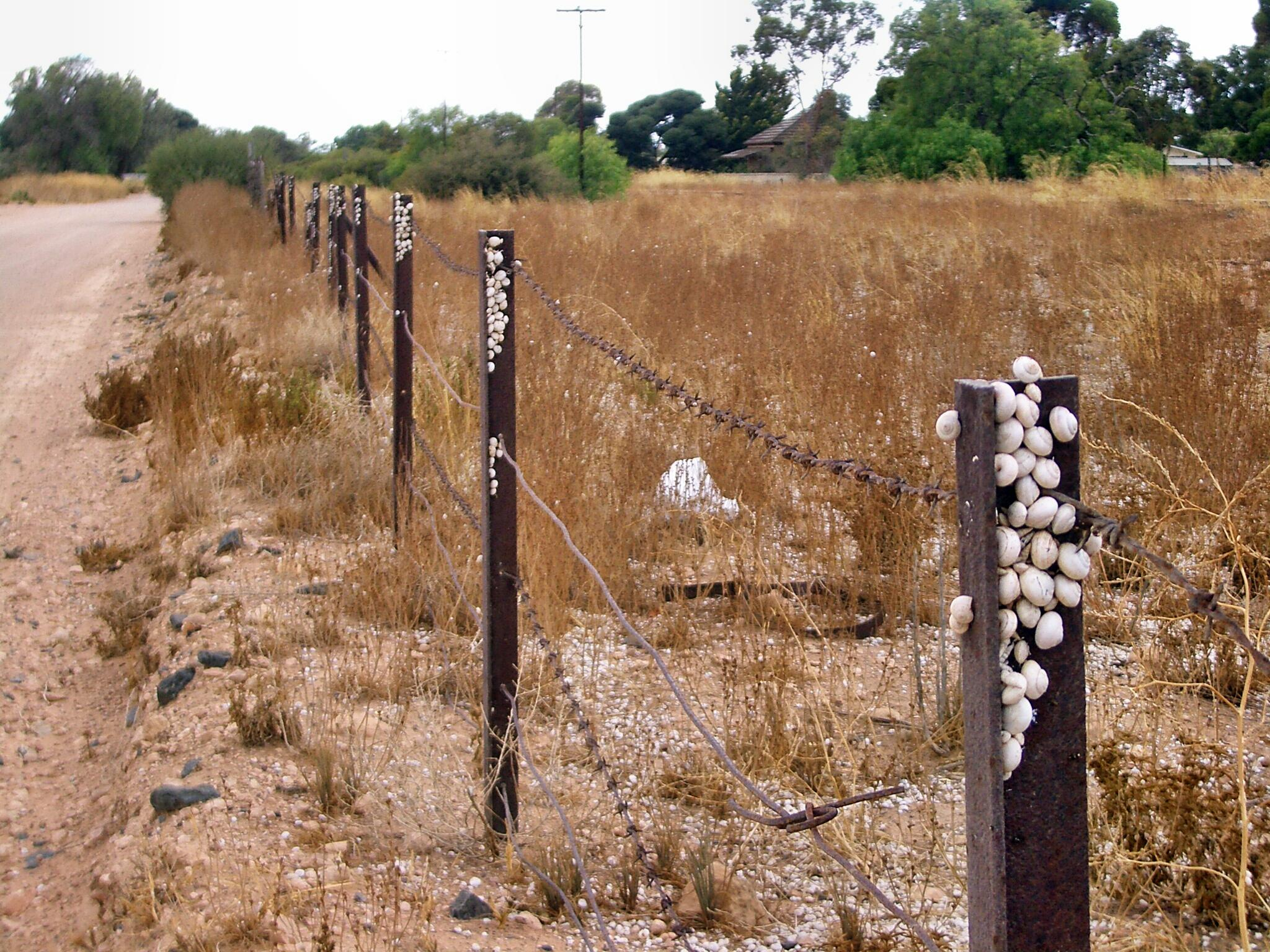 Groups of introduced snails aestivating at the top of fence posts at Kadina, South Australia. (As can be seen in the detail image, the groups are mostly composed of the white garden snail Theba pisana, with some smaller individuals of the pointed snail, Cochlicella acuta.)